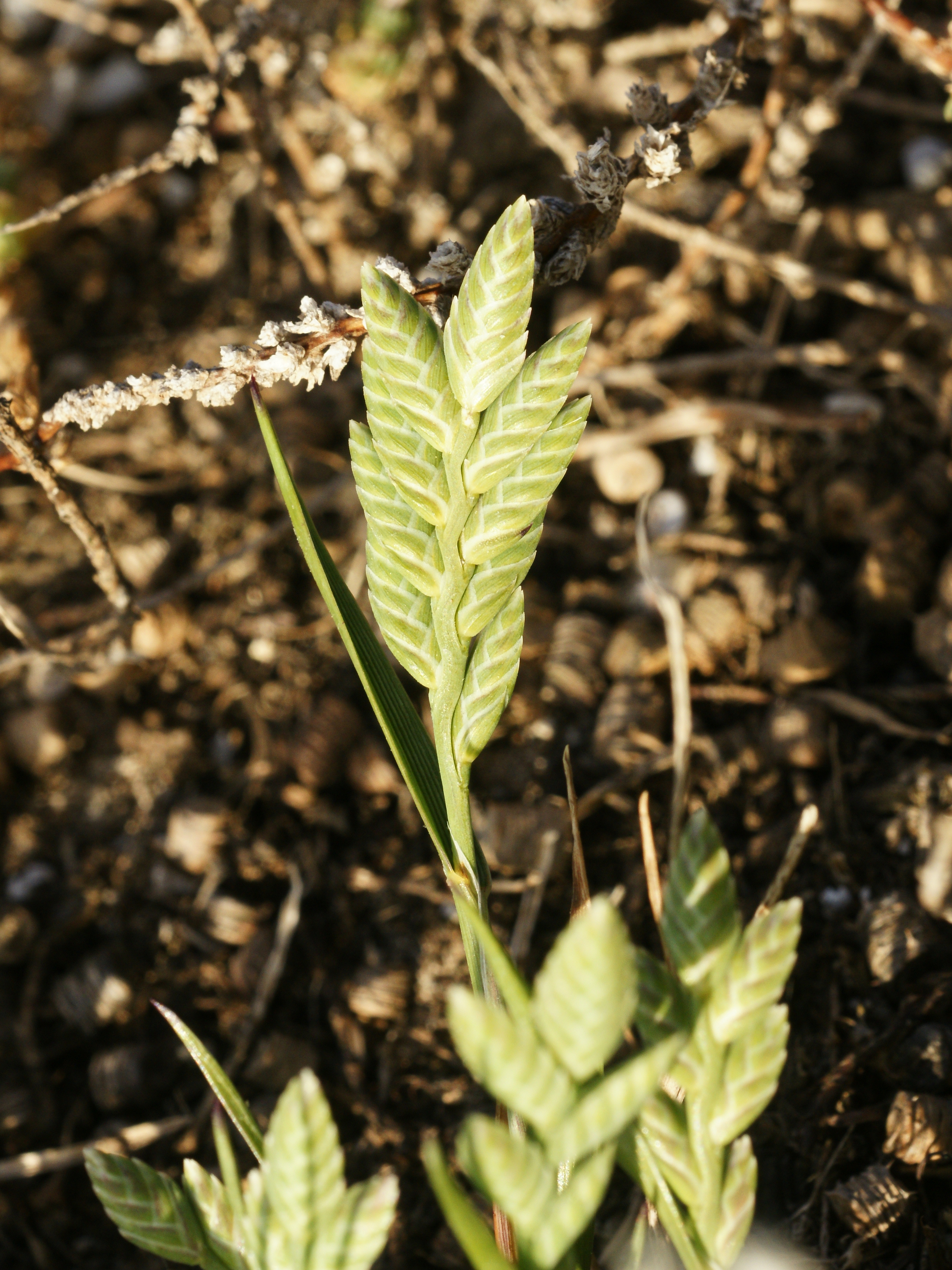 An uncommon grass. Sardinia, Italy